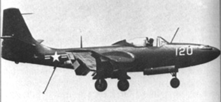 A McDonnell FH-1 Phantom about to land.